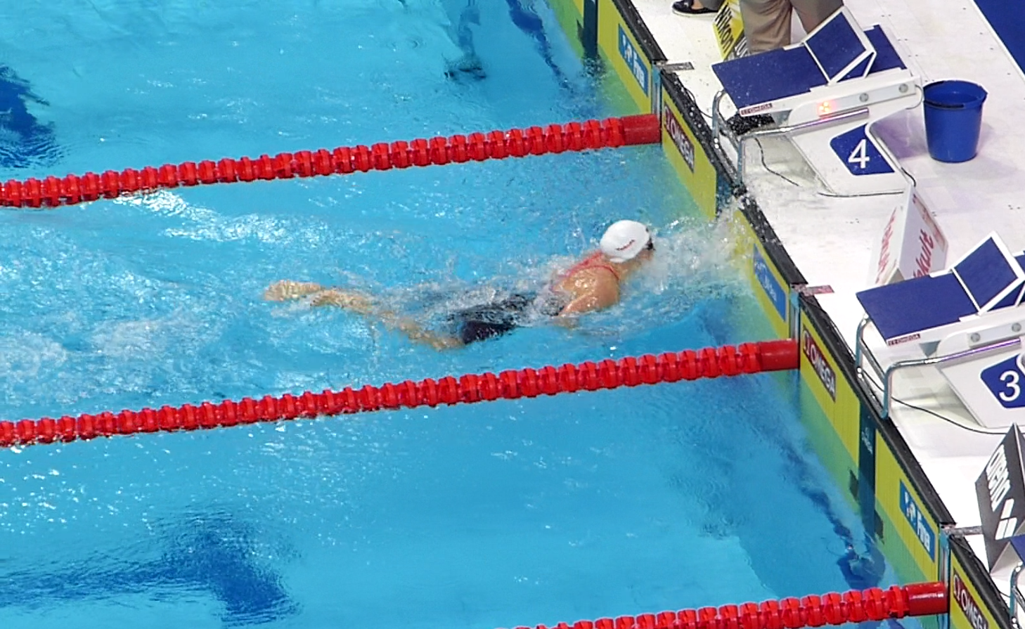 Katinka Hosszú winning 400-meter individual medley gold. On the 30th of July, 2017. Budapest, Hungary, Central Europe. Cropped from File:Katinka Hosszú shatter world record in winning 400-meter individual medley gold - 2017.07.30.ogg